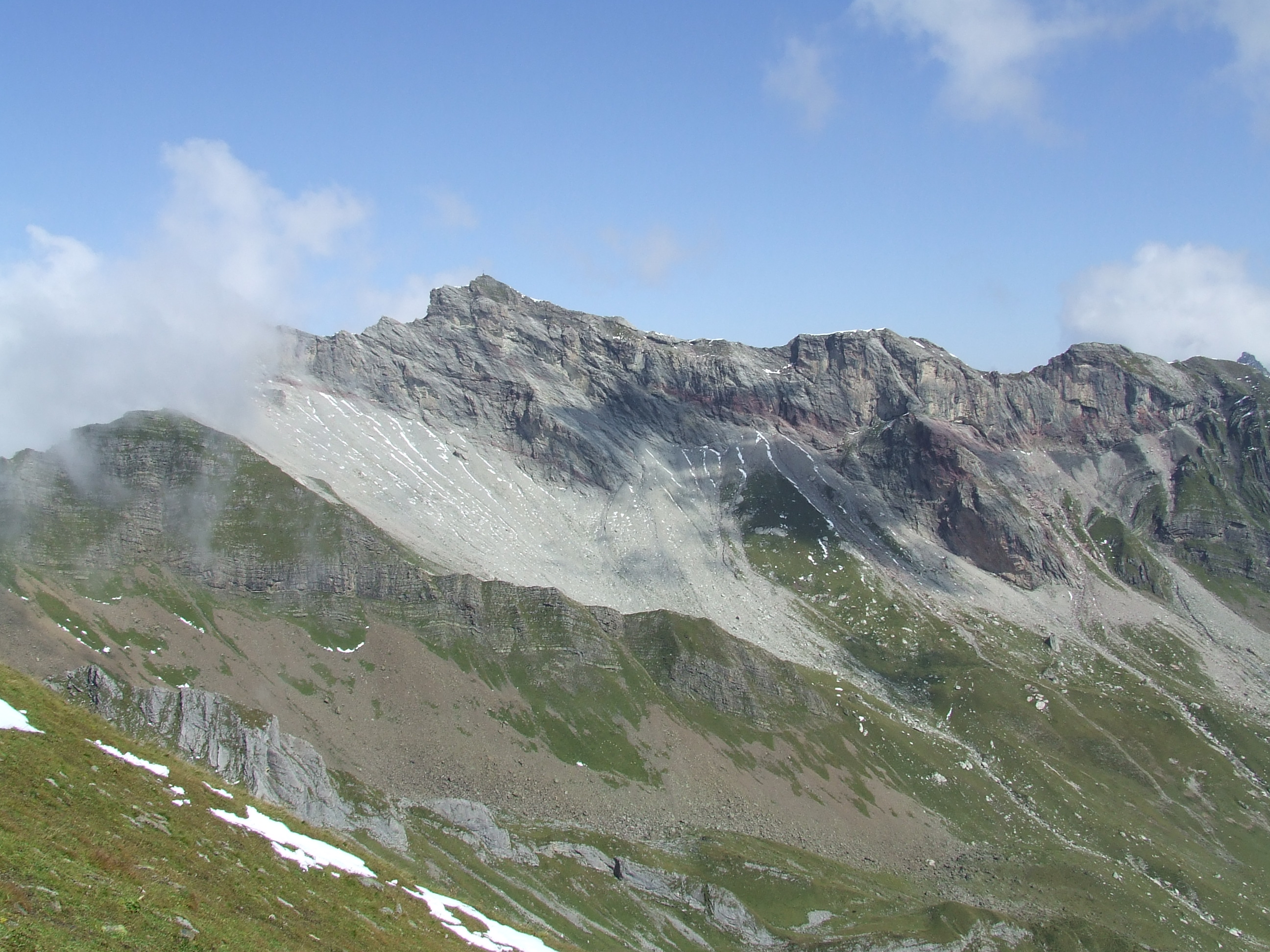 Naafkopf and ridge on NE side of Ijes from SW